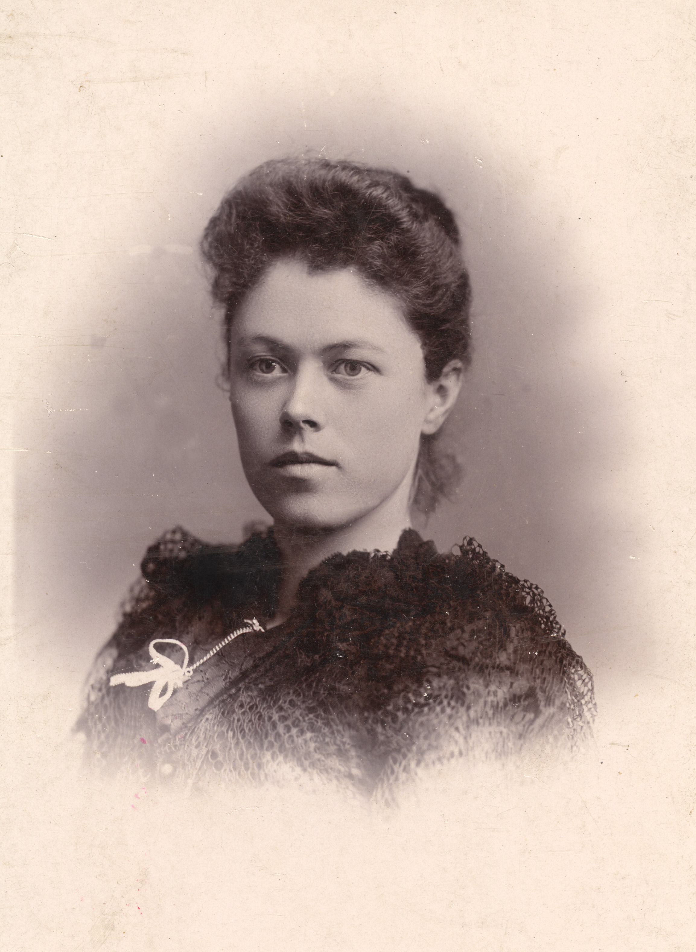 Cabinet card portrait, taken 1892 by Monmouth, Ill., photographer Melville Root at his studio, 213 South Main St.